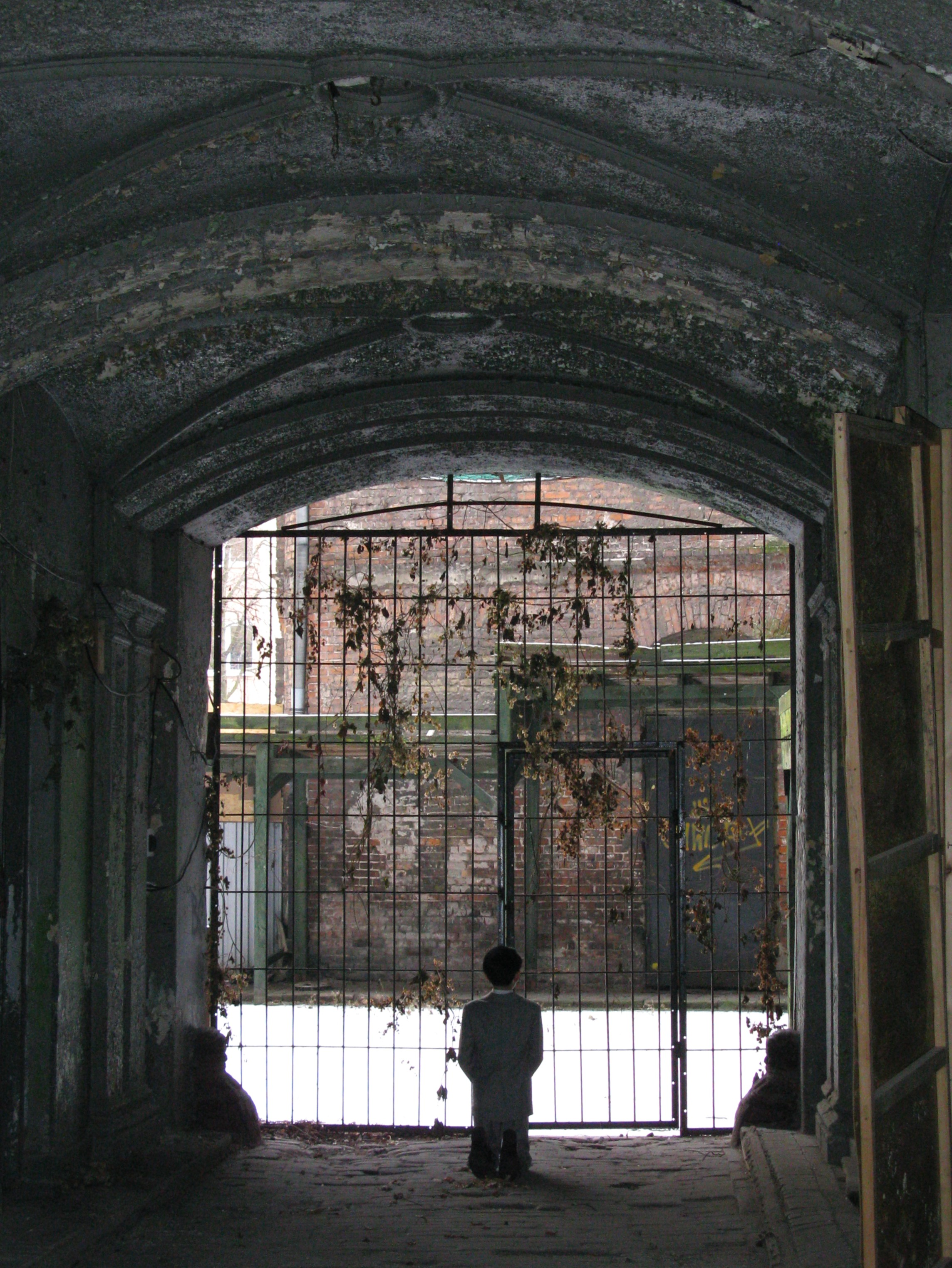 HIM, a statue by Maurizio Cattelan in Warsaw Ghetto 2013